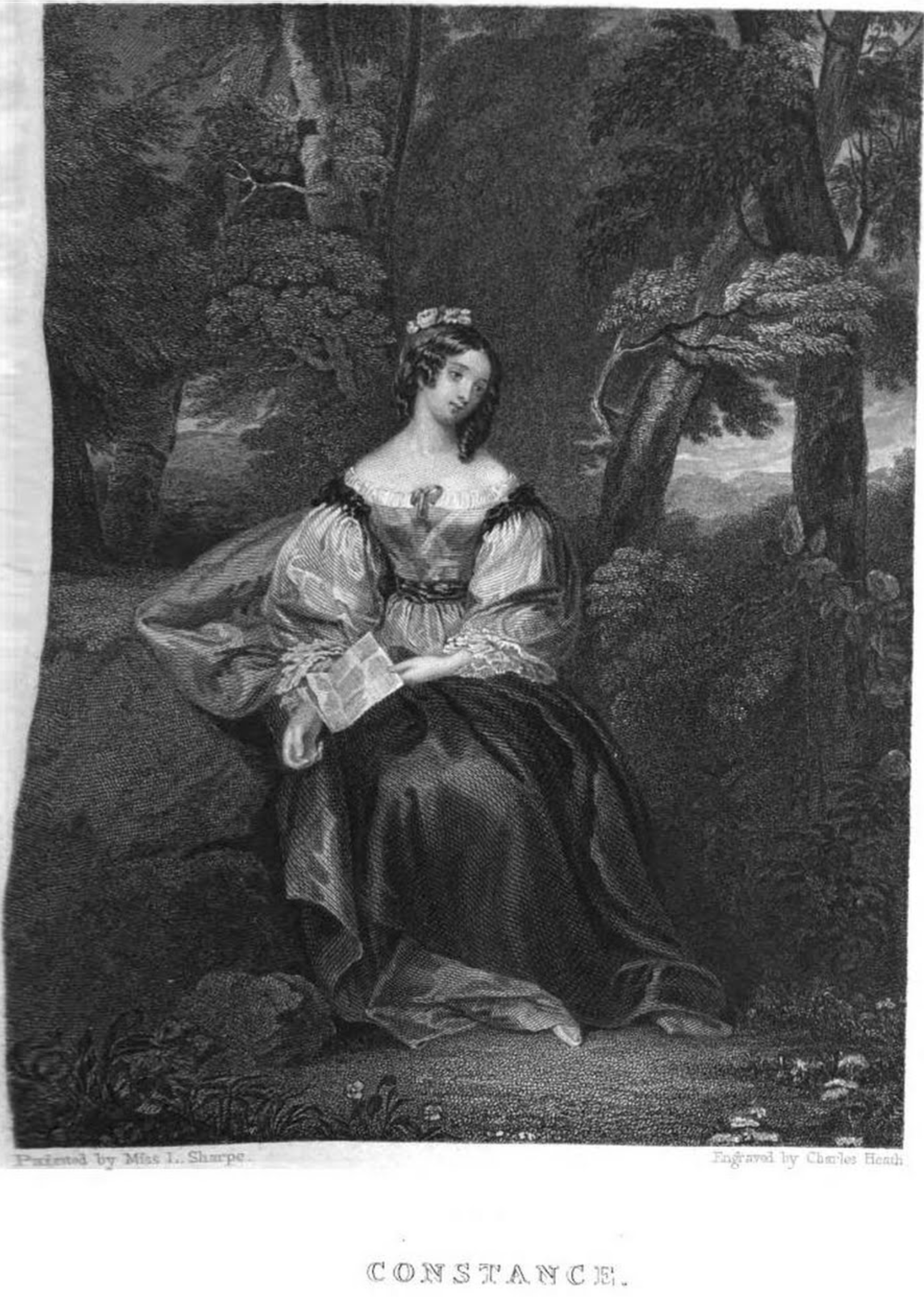 Constance, engraving from The Keepsake for 1832, story The Dream, by Mary Shelley. Painted by Louisa Sharpe, engraved by Charles Heath.